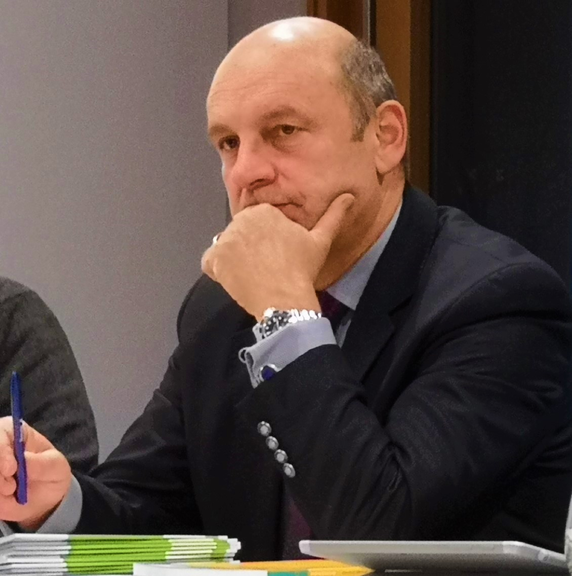 Reinhard Meier-Walser